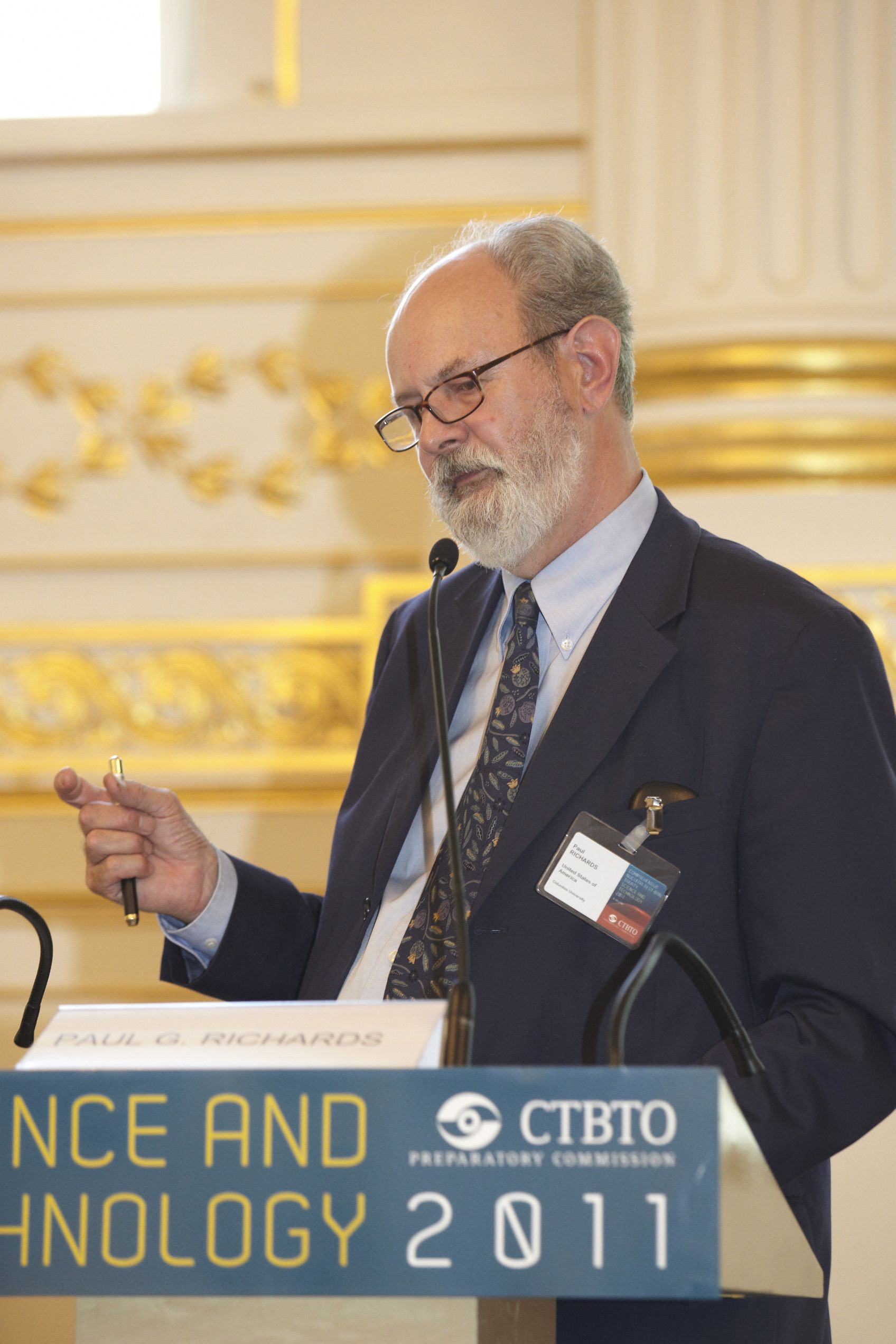 8 June 2011 - Vienna Paul G. Richards delivering a presentation on the effects of non-isotopic explosion sources upon the utility of the Ms-mb discriminant at the Science and Technology conference 2011. Copyright CTBTO Preparatory Commission Photographer: Marianne Weiss